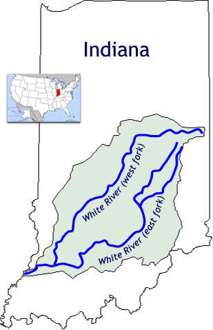 Description: The two forks of the White River in Indiana. Source: Created by Davodd